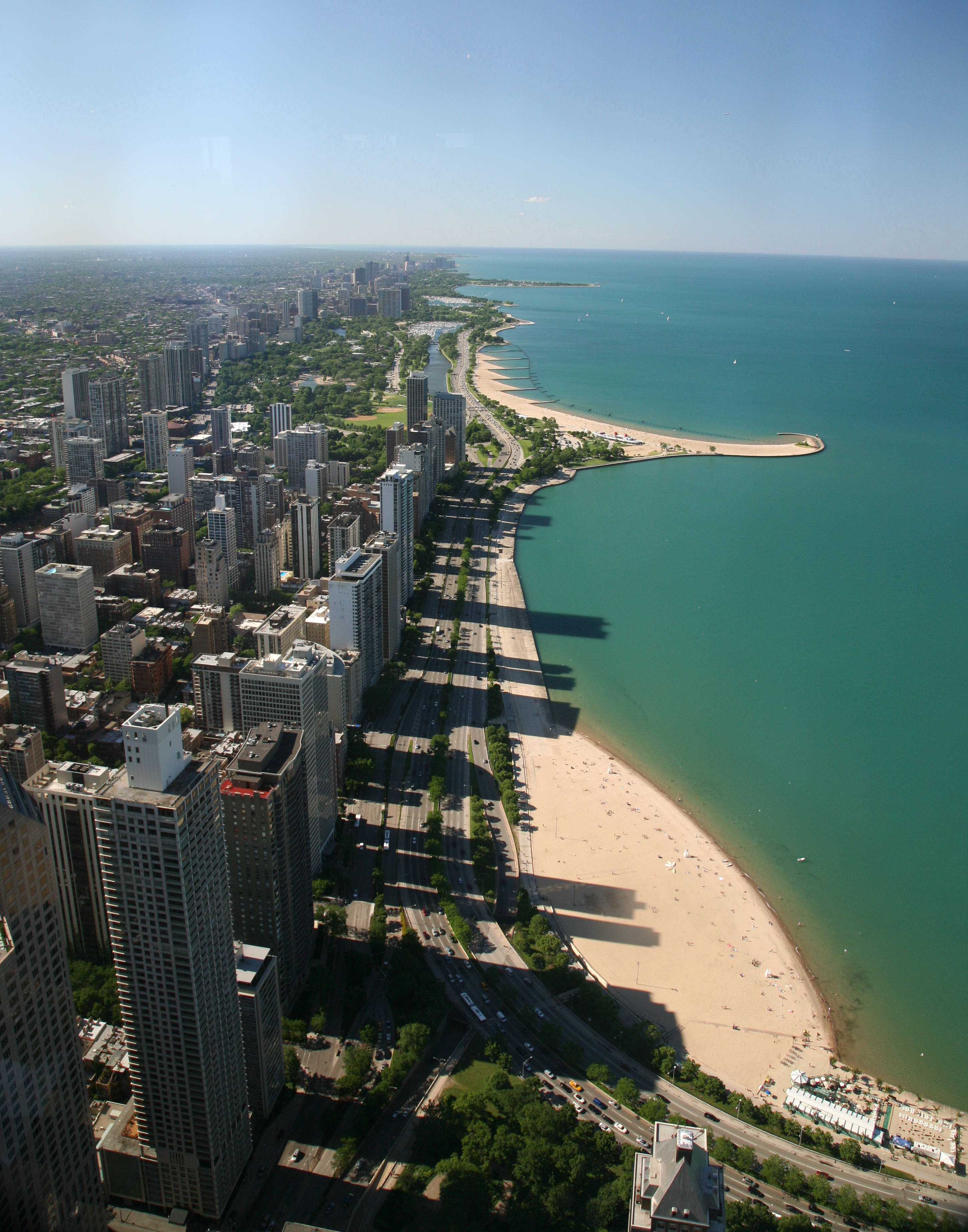 The Near North Side is one of 77 well defined community areas of Chicago, Illinois, United States. It is located north of the Chicago River and the downtown central business district (the Loop). With the exception of Cabrini-Green, the Near North Side is known for its extreme affluence. The Gold Coast is the wealthiest neighborhood in Chicago. Chicago's Gold Coast Beaches The Gold Coast consists mostly of high-rise apartment buildings on Lake Shore Drive, facing Lake Michigan, but also includes low-rise residential blocks, inland. As with many neighborhoods, its exact borders are subject to dispute; but, generally they extend from North Avenue, south, to Division Street and west to Clark Street; and, it also includes the areas east of State Street, south, to Oak Street and east of Michigan Avenue, south, to Walton Place. The Palmer Mansion, built by businessman Potter Palmer. It was demolished in 1951. The Gold Coast was an unexceptional neighborhood until 1885, when Potter Palmer, former dry goods merchant and owner of the Palmer House hotel, built a fanciful castle on Lake Shore Drive. Over the next few decades, Chicago's elite gradually migrated from Prairie Avenue to their new homes north of the Loop. Along almost every boulevard of the Gold Coast, upscale boutiques and shops have opened up. Giorgio Armani, Chanel, Hermès, Gucci, Prada, Louis Vuitton, Cartier SA, Van Cleef & Arpels, Yves Saint Laurent, Harry Winston, Kate Spade, Tory Burch, DKNY, Ralph Lauren, Marc Jacobs, Stuart Weitzman, Rolex, Max Mara, Vera Wang, Jimmy Choo, Versace, Paul Stuart, Betsey Johnson, and Lilly Pulitzer are just a few of the dozens of designers that have locations in the exclusive neighborhood. Also, Lamborghini, Ferrari, Bentley, Porsche, and Bugatti have dealership locations in the Gold Coast. The "Gold Coast Historic District" was listed on the National Register of Historic Places on January 30, 1978.